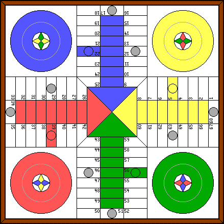 Parchis board game